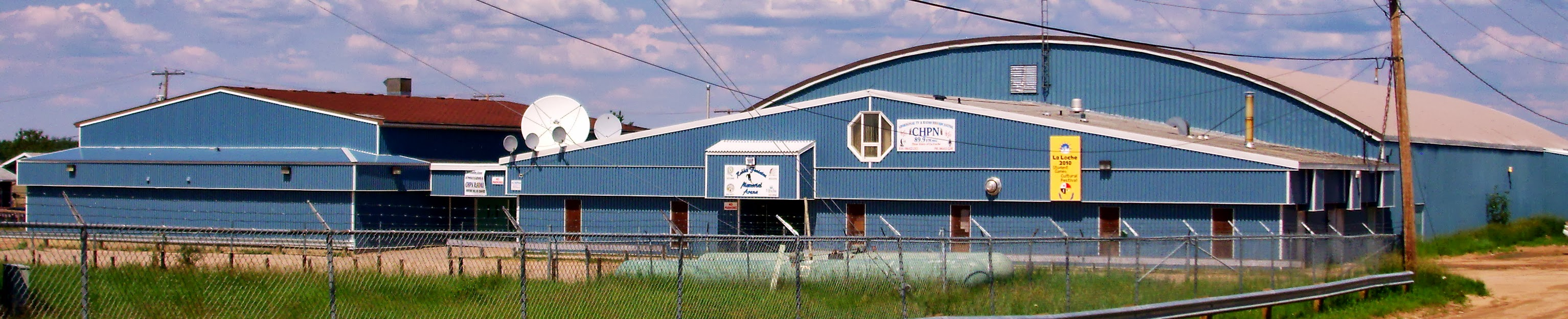 The La Loche Arena Complex on July 1, 2013